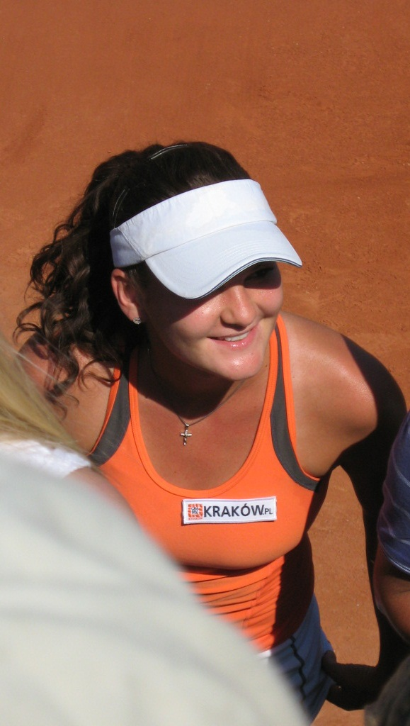 Agnieszka Radwańska after her first round match, French Open 2010.